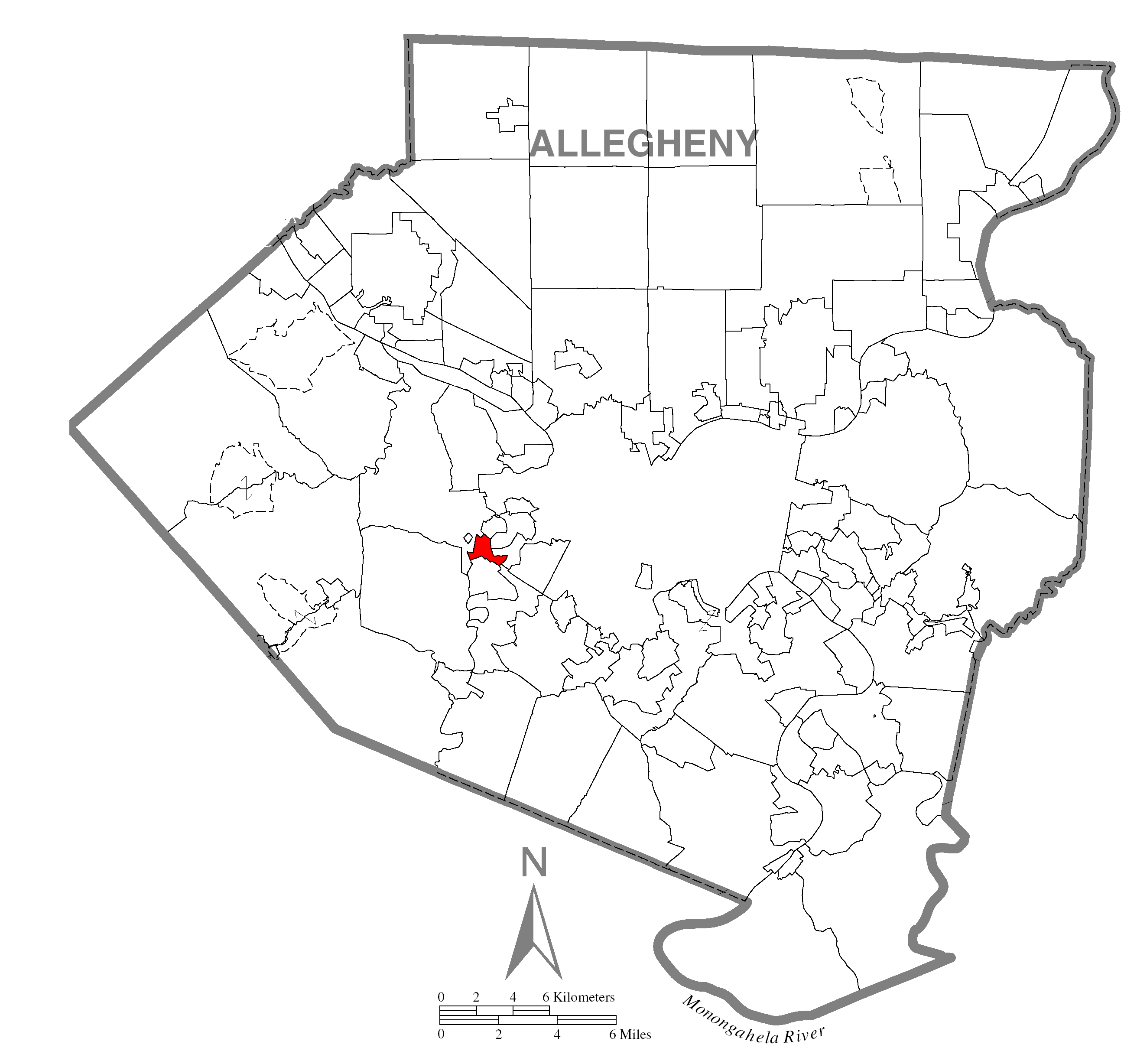 A map of Allegheny County showing Rosslyn Farms, Pennsylvania (alternate) highlighted on the map.